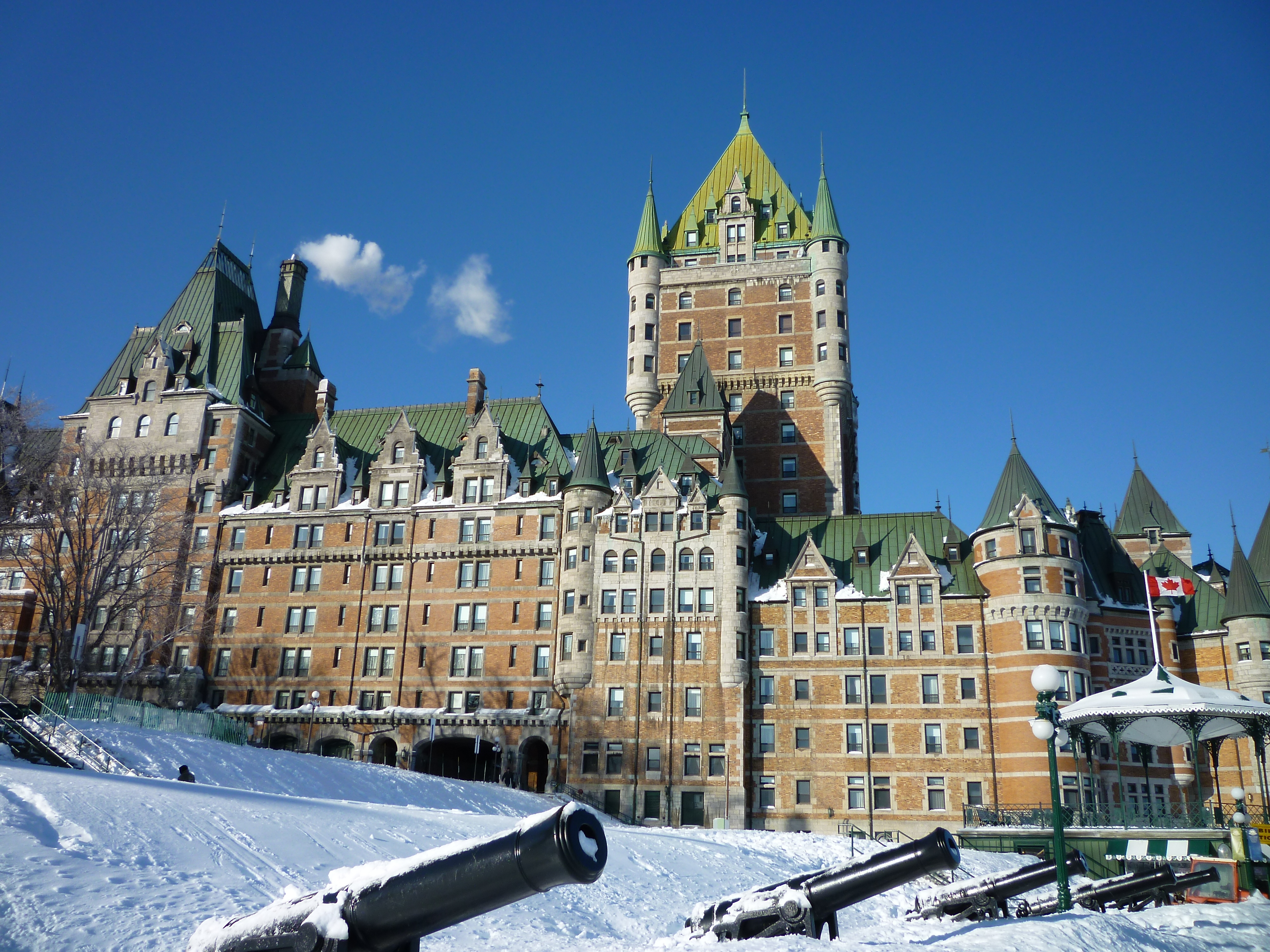 From Dufferin Terrace